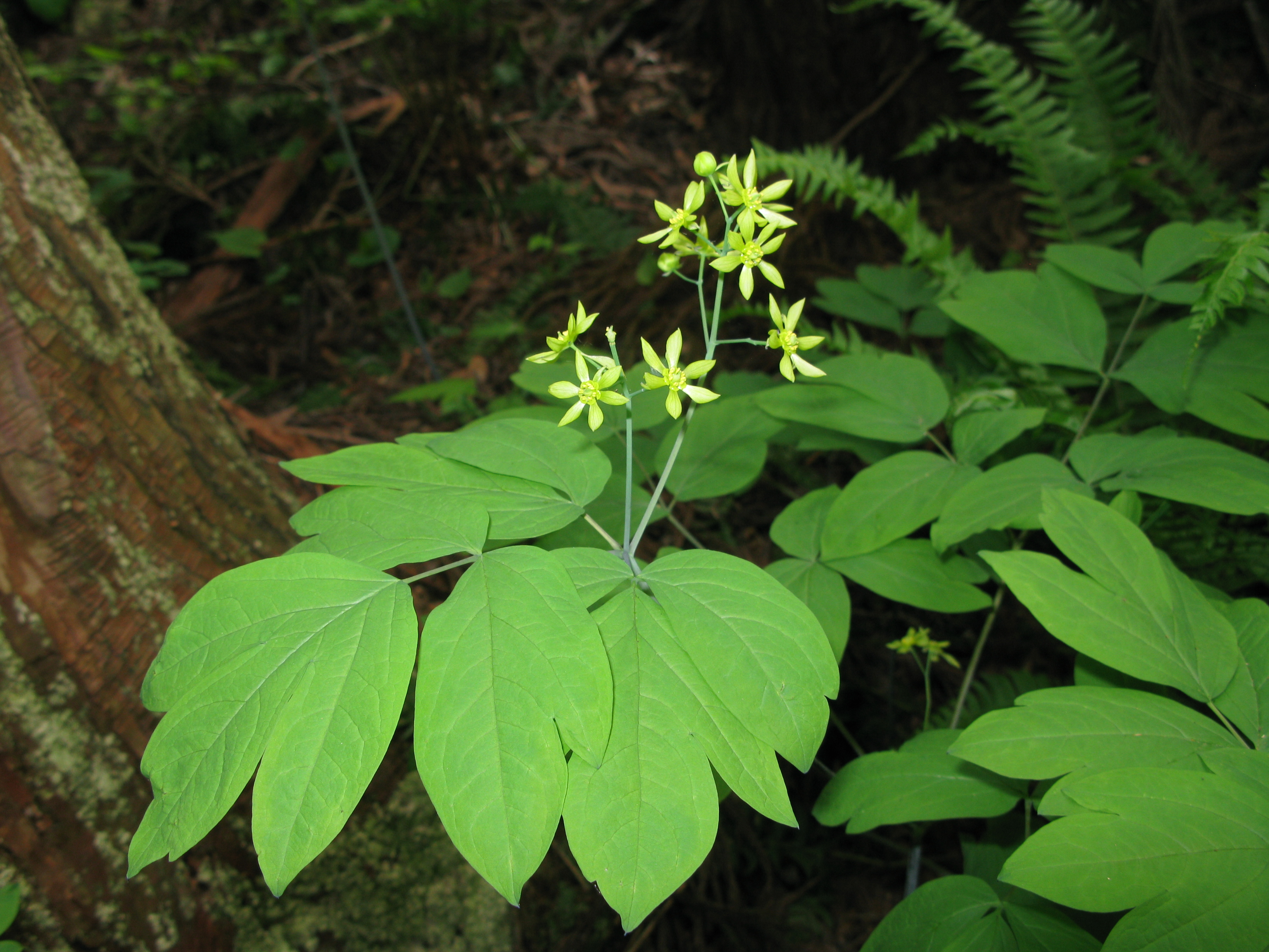 Caulophyllum robustum, Aizu area, Fukushima pref., Japan